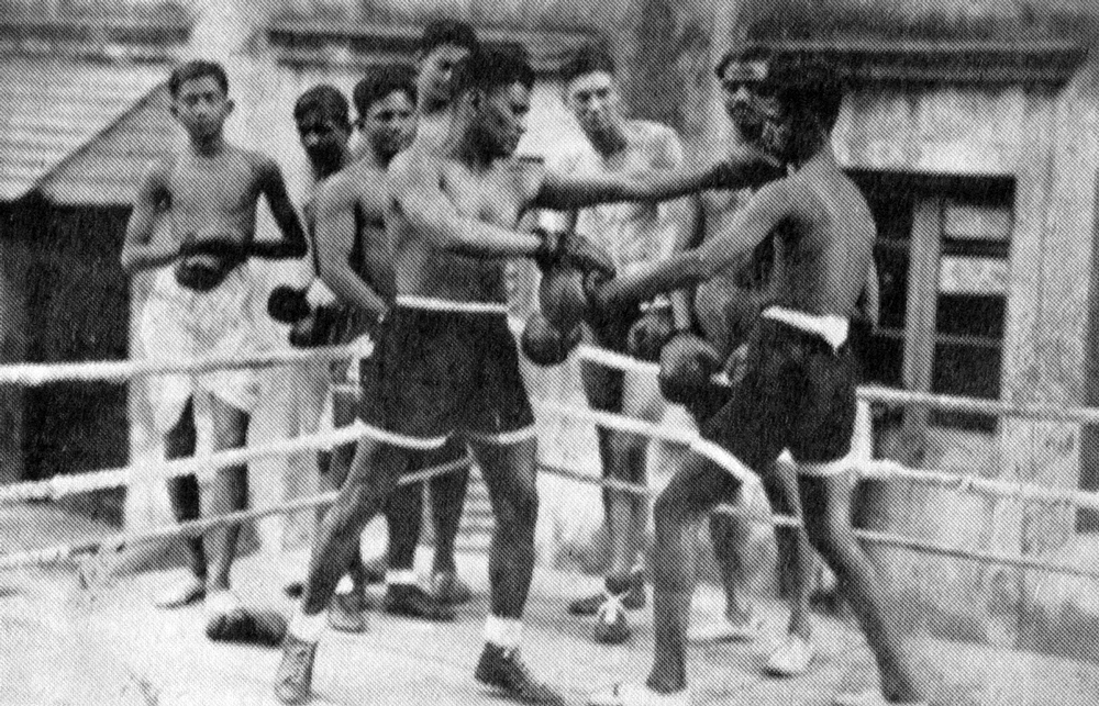 JK Seal giving instruction to his young students in SOPC, 1933 kolkata